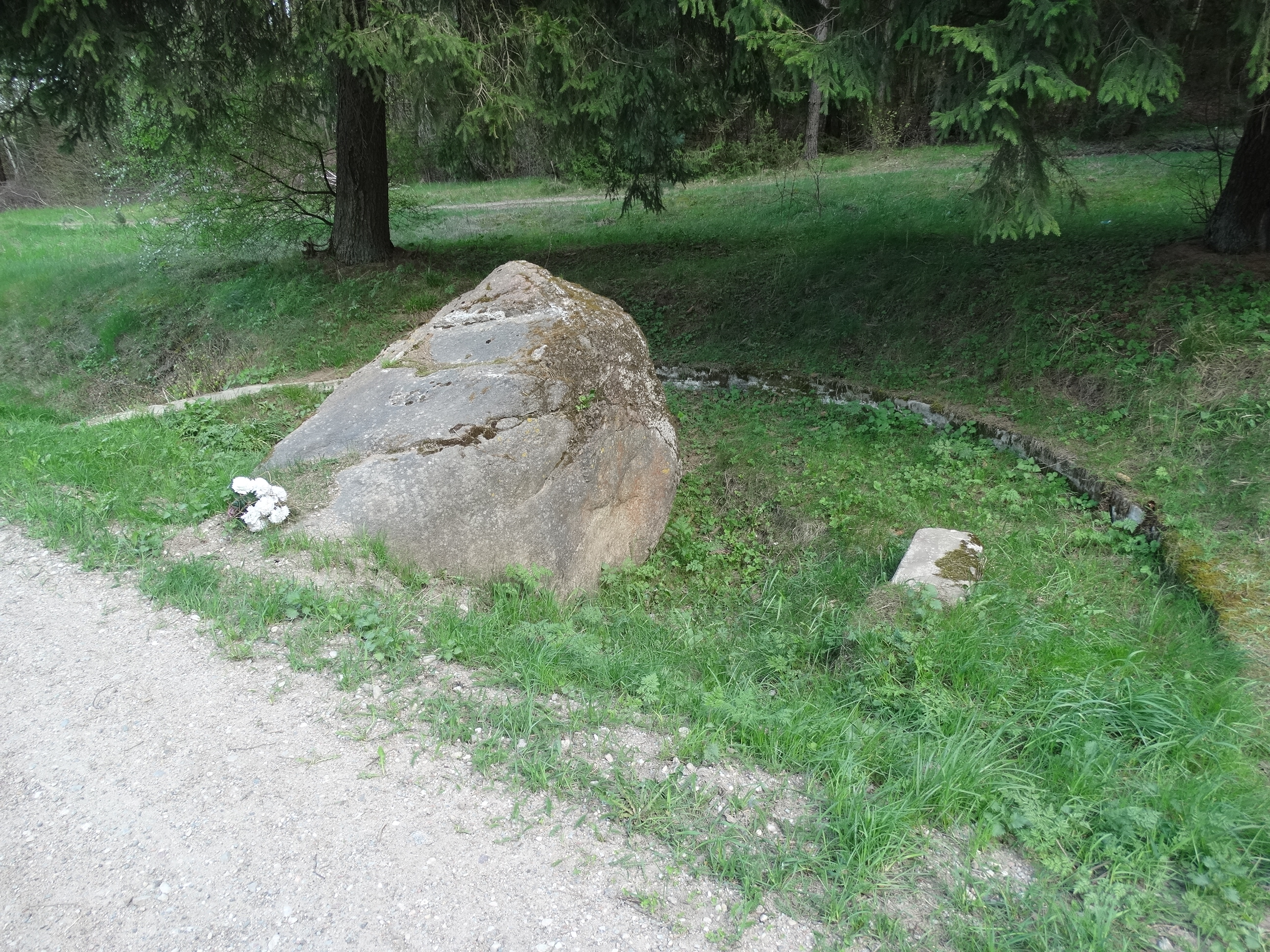 Stone, Pulstakai, Šalčininkai District, Lithuania